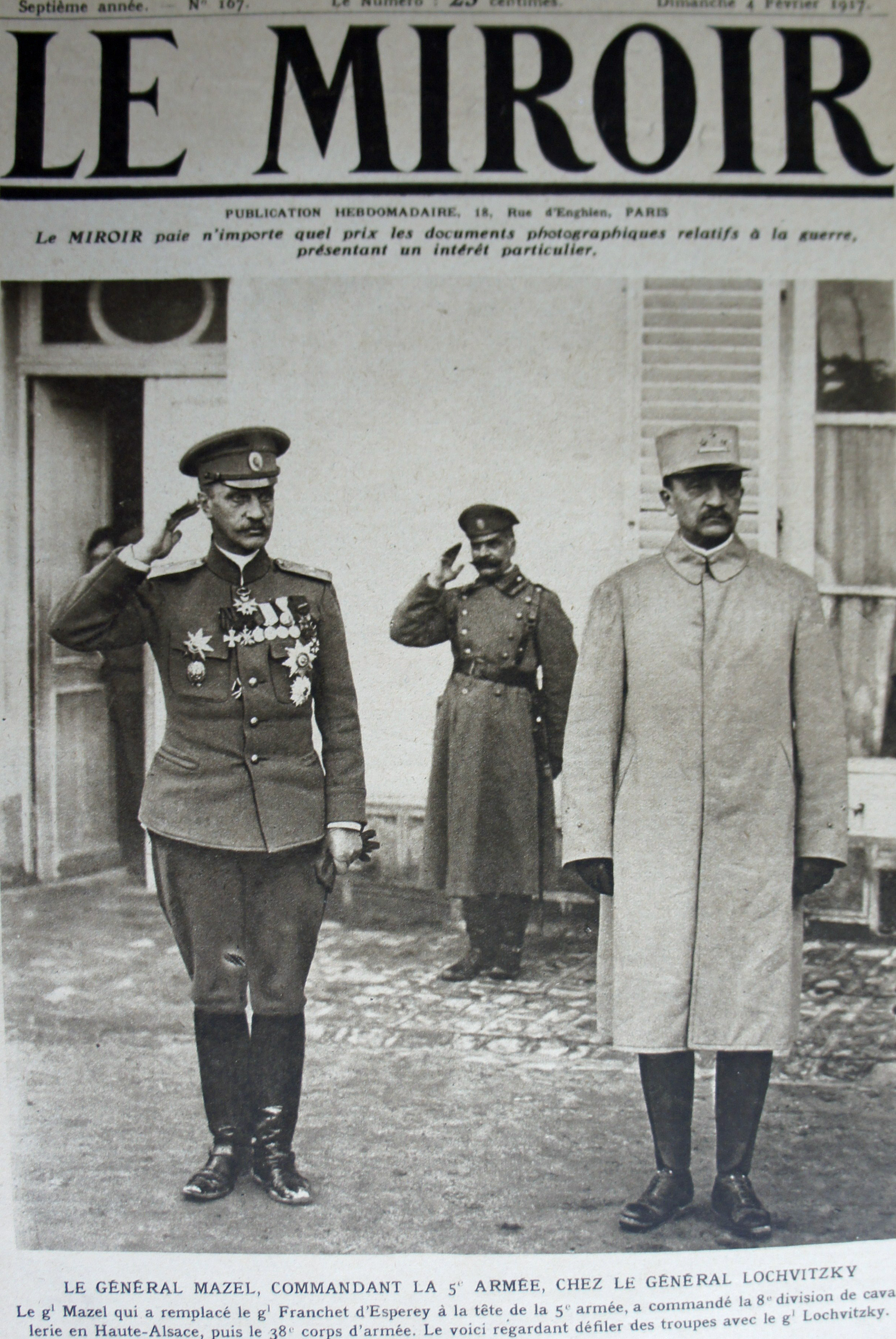 extrait du journal "le miroir".